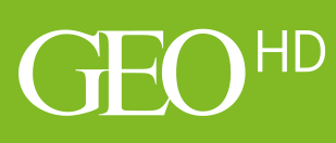 This is the station Logo of GEO HD.